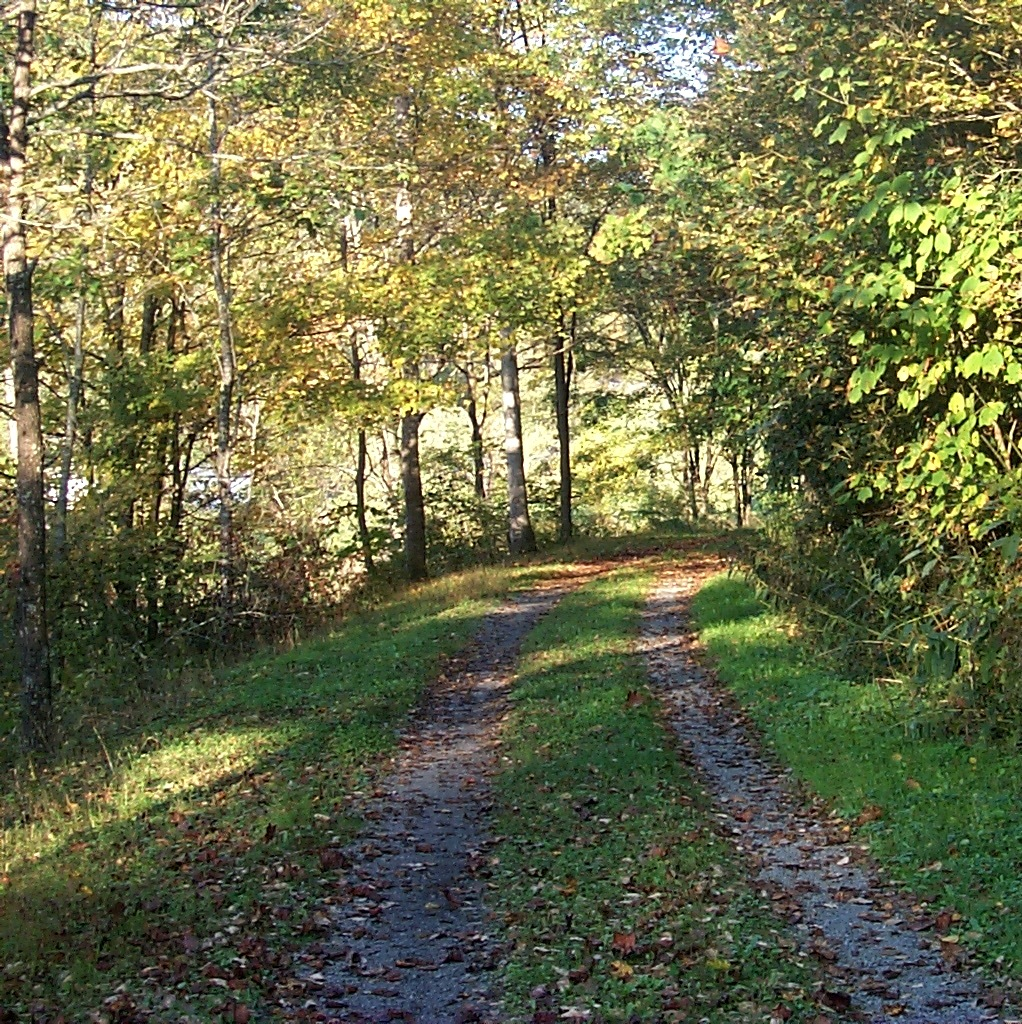 Photo M.L.W. (User:WVhybrid) Fall of '04 bicycle tour of WV.